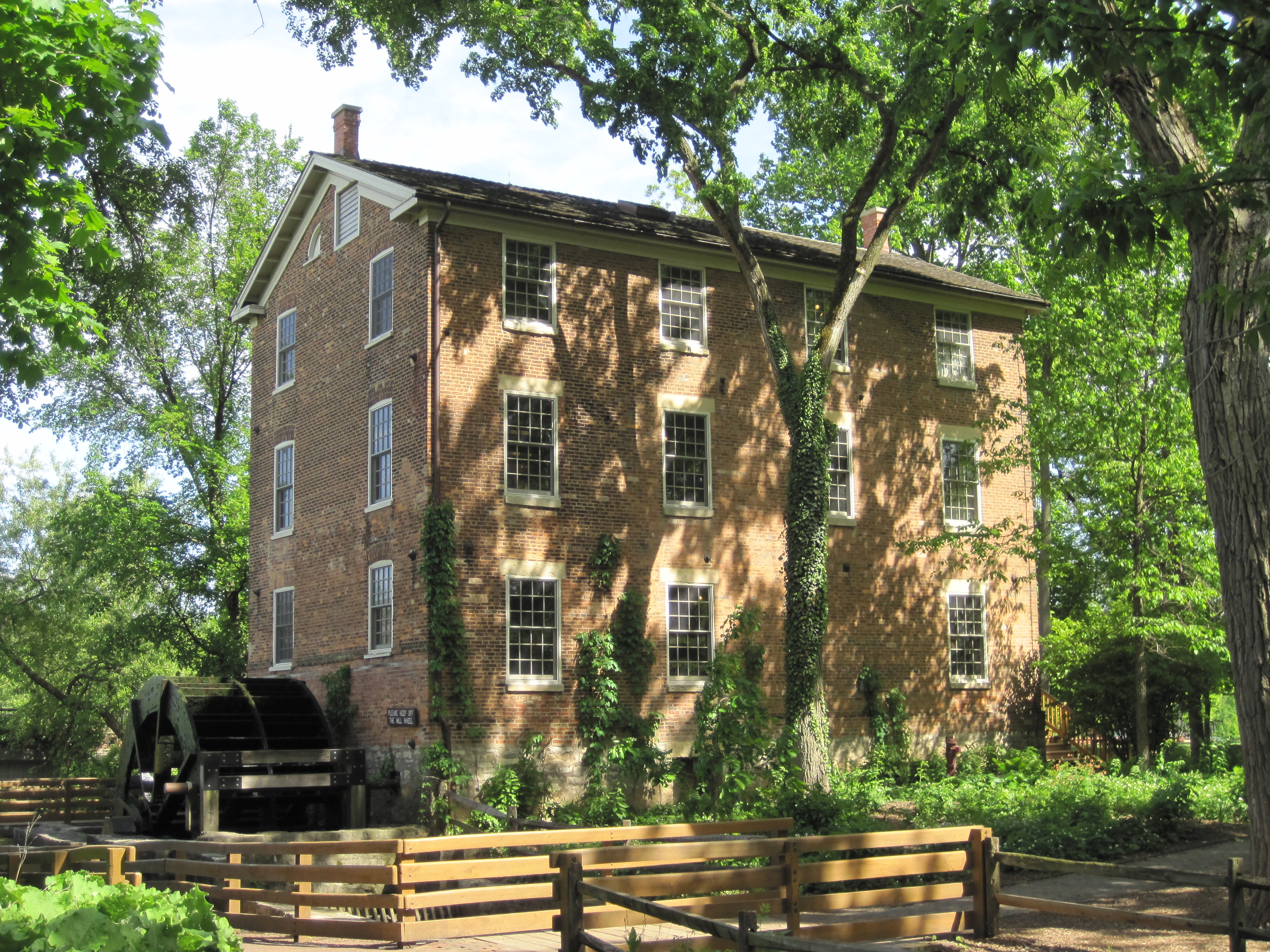 Graue Mill in Oak Brook (1854). It still operates as a gristmill, although the machinery is not connected to the wheel in the millrace. It originally went out of business in the 1910s, but was recognized as a site of potential historic interest, prompting the Civilian Conservation Corps to rehabilitate it in the early 1940s.